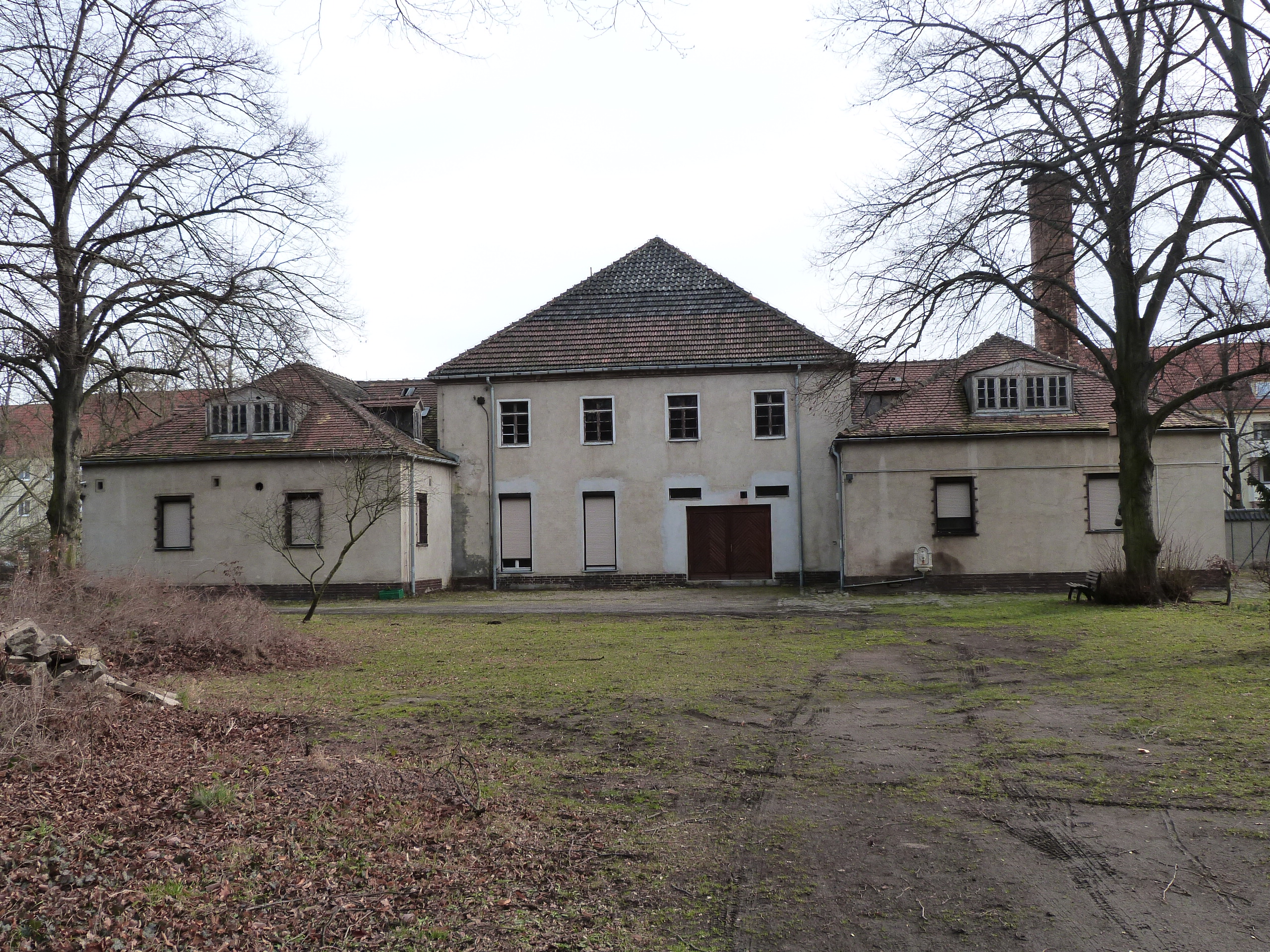 Mourning hall in the New Jewish Cemetery in Halle (Saale)